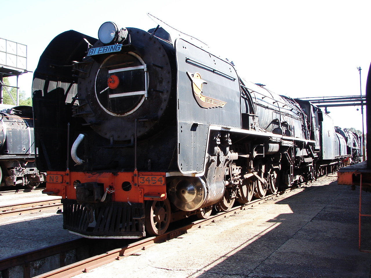 SAR Class 25NC 3454 (4-8-4), unique with its double side by side chimneys and extended exhaust deflectorsBuilder's Number: NBL 27314Type: Non condensing, here with an ex condensing "worshond" tenderLocation: Bloemfontein, Free StateReclassification: From Class 25 (condensing) to Class 25NC (non condensing)